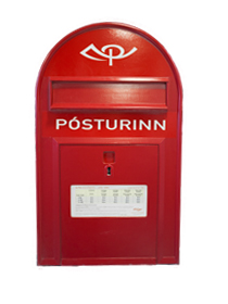 A standard mail box